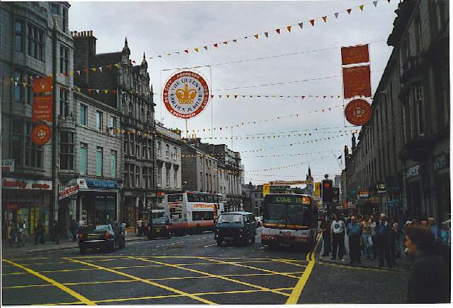 Union Street, Aberdeen. Looking east from the Crown Street junction, the granite facades are still imposing despite the ground floor occupation by ubiquitous chain store shops and offices. The bunting celebrates the Queen's Golden Jubilee.